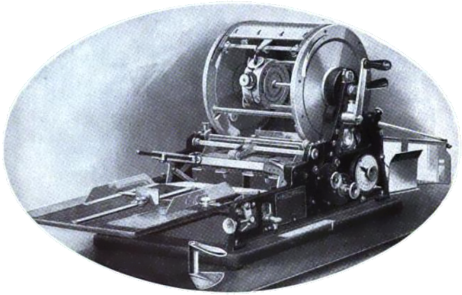 1918 illustration of a mimeograph machine. Out of Life magazine.